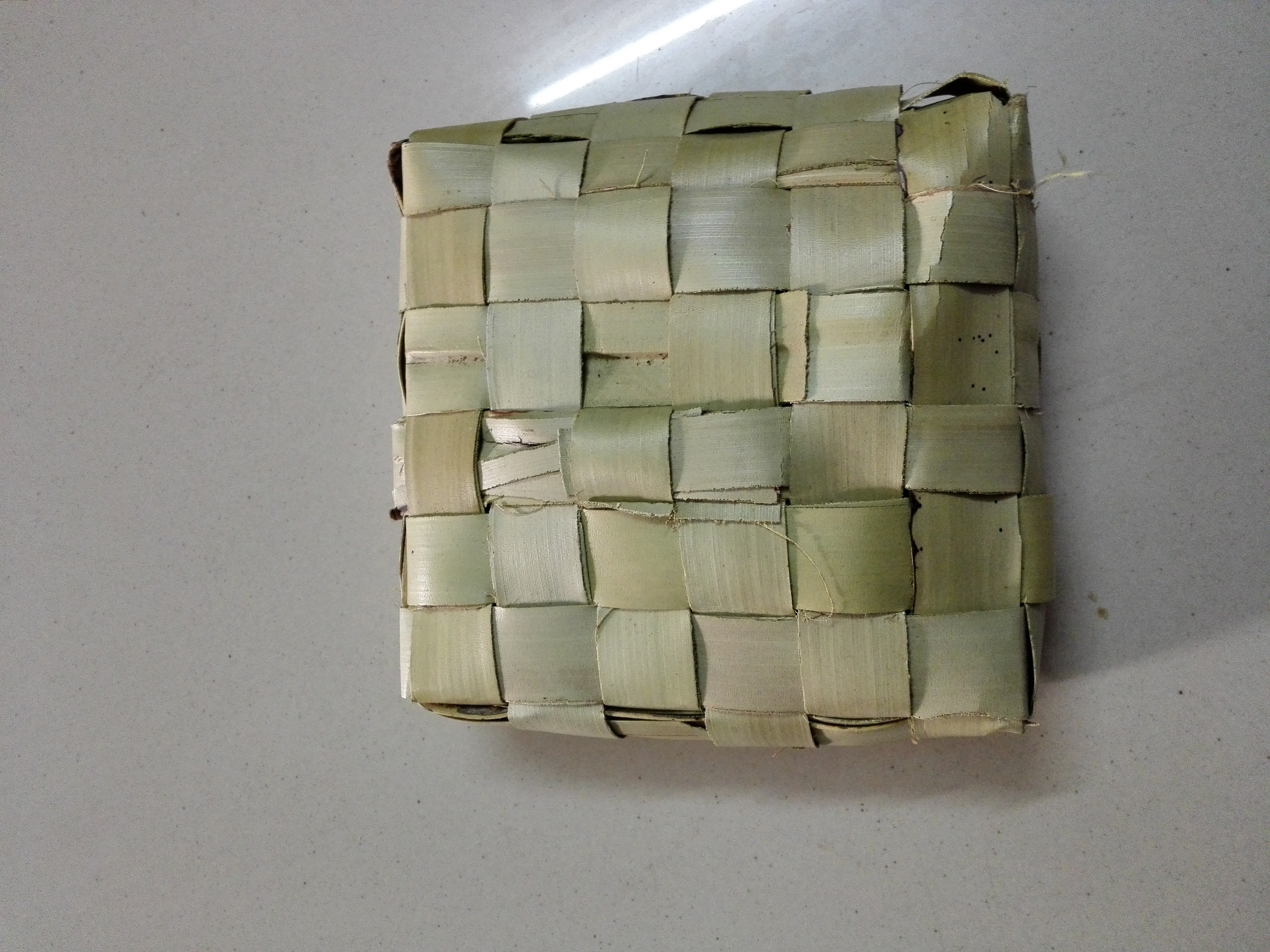 A case made of palm leaves. It is used to contain jaggery and such sweets. The usage of this sustainable packaging method is fast declining with the advent of plastic carry bags and other paper packaging.